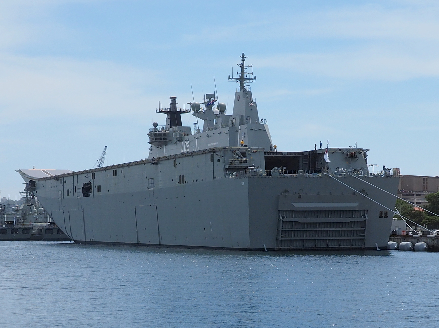 The stern of HMAS Canberra